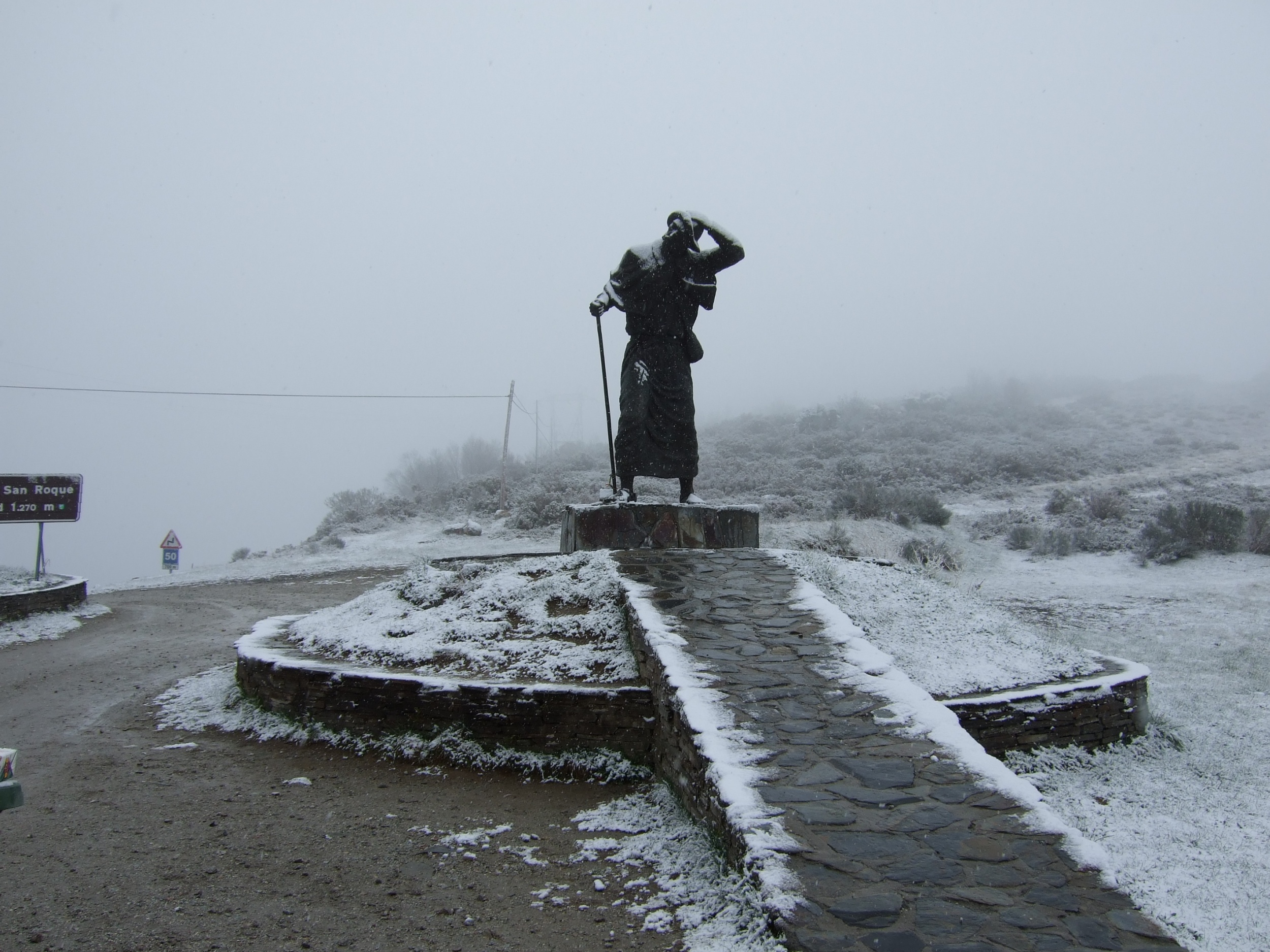 Alto San Roque - camino frances